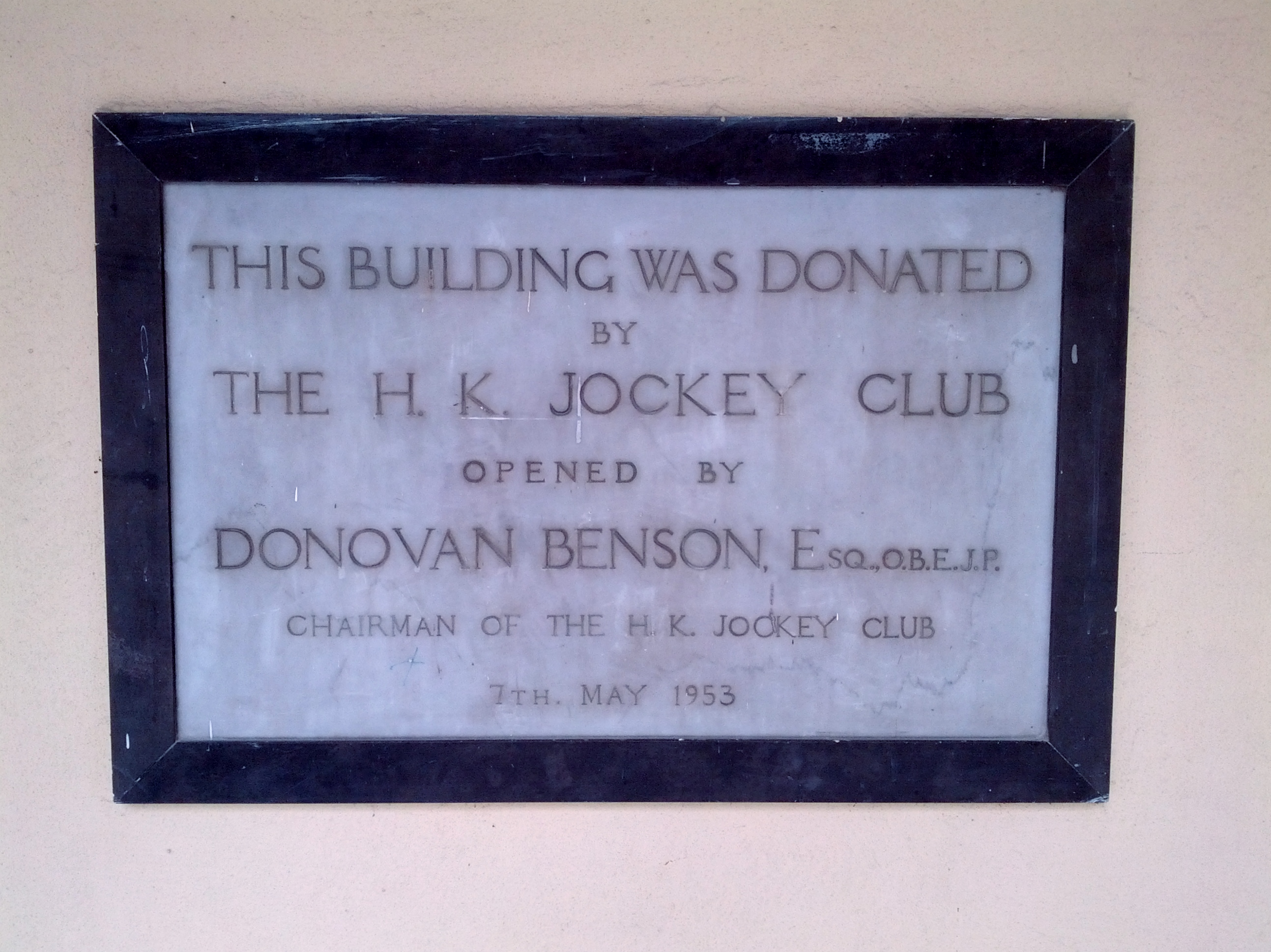 Plaque commemorating the opening of Hong Kong St John Ambulance Brigade Kowloon and NT Command Headquarters Building by Mr Donovan Benson, Esq., O.B.E., J.P. on 7th May 1953 中文（香港）: 香港聖約翰救傷隊九龍及新界總區總部大樓由賓臣先生，O.B.E., J.P.於1953年5月7日主持揭幕碑記